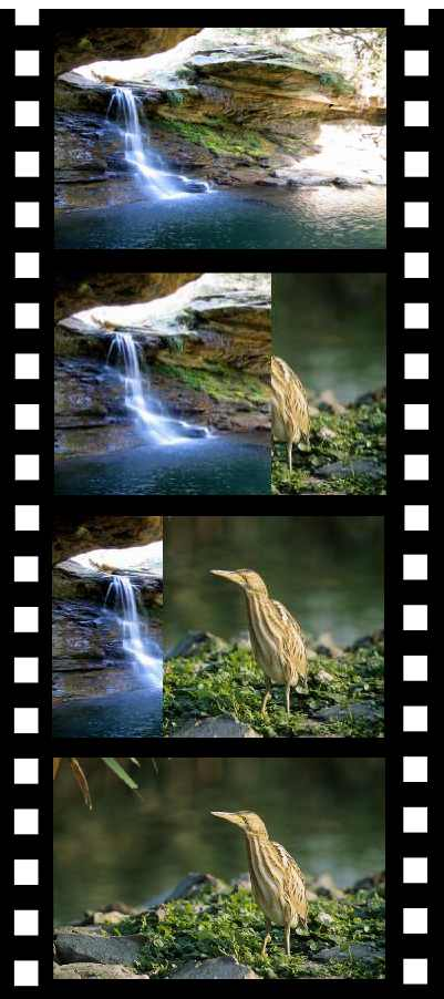 A part of a movie containing the "soft cut" called "wipe from right to left".